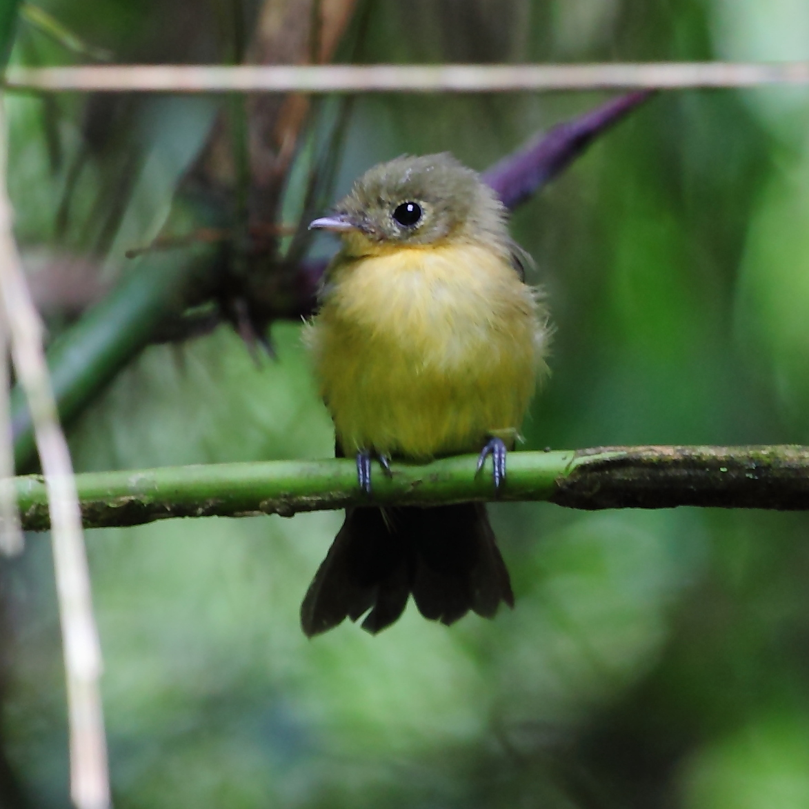 Black-tailed Flycatcher at São Luiz do Paraitinga - SP - Brazil